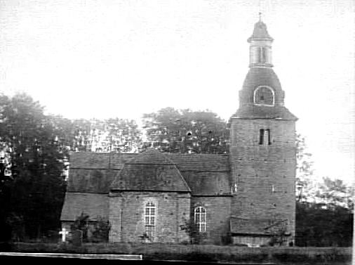 Synnerby gamla kyrka (english:Synnerby old church) in Västergötland and Skara municipality in Västragötaland county, Sweden.